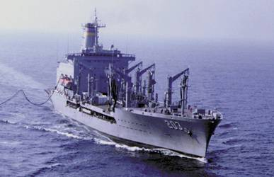 United States Navy Henry J. Kaiser-class fleet replenishment oiler, the USNS Laramie (T-AO-203)